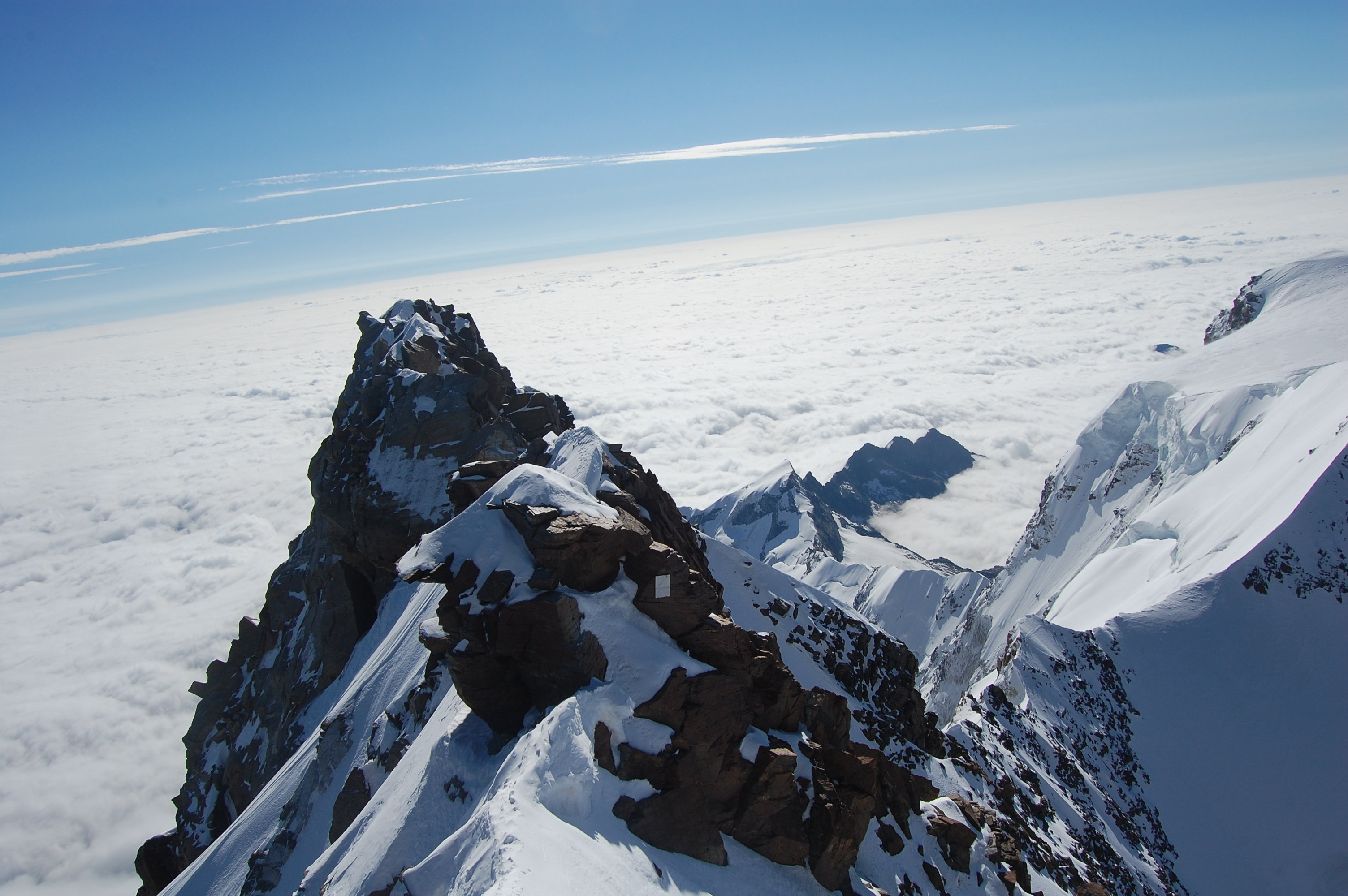 View from the summit of Monte Rosa, towards south-east